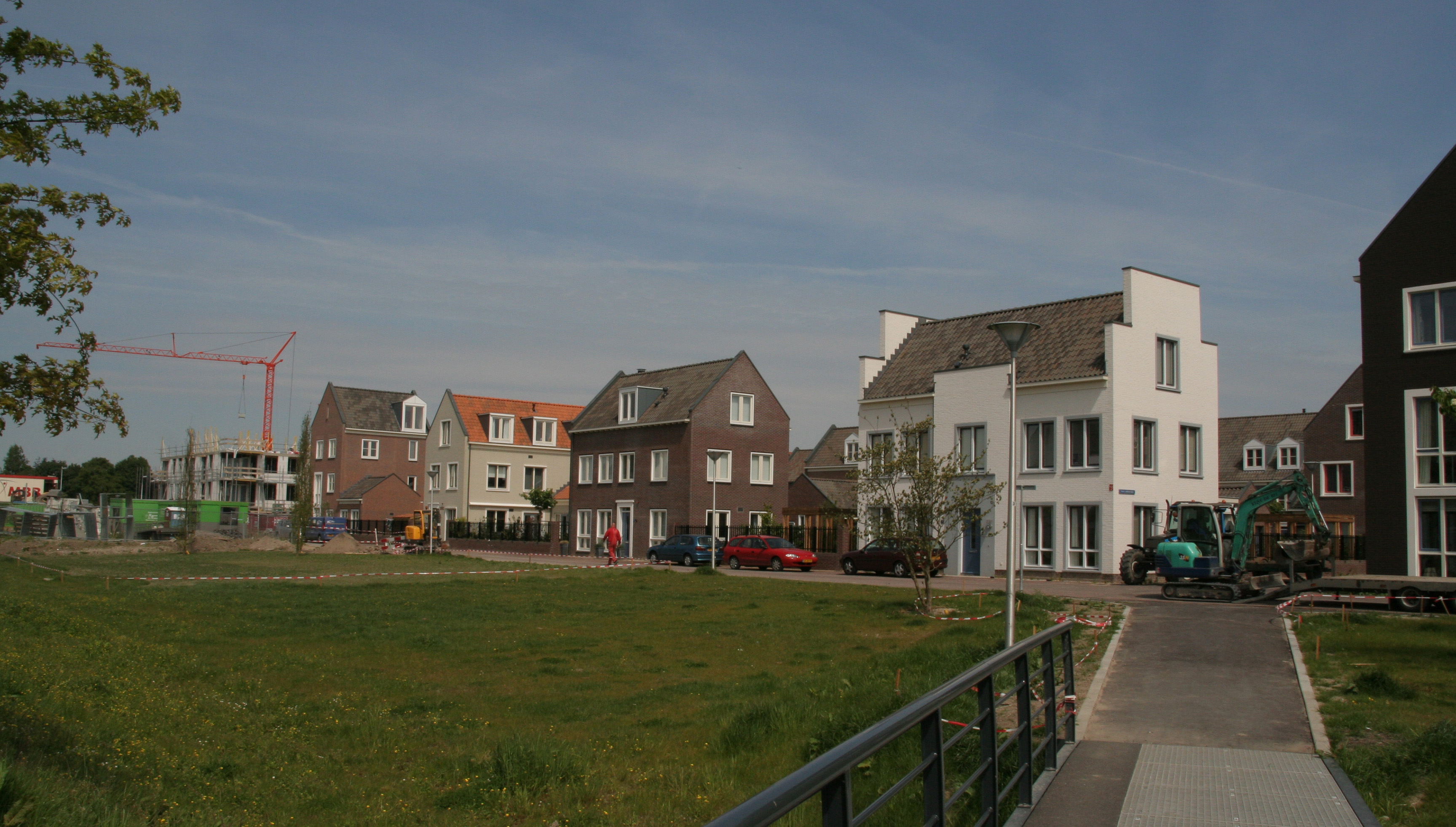 De Woerd